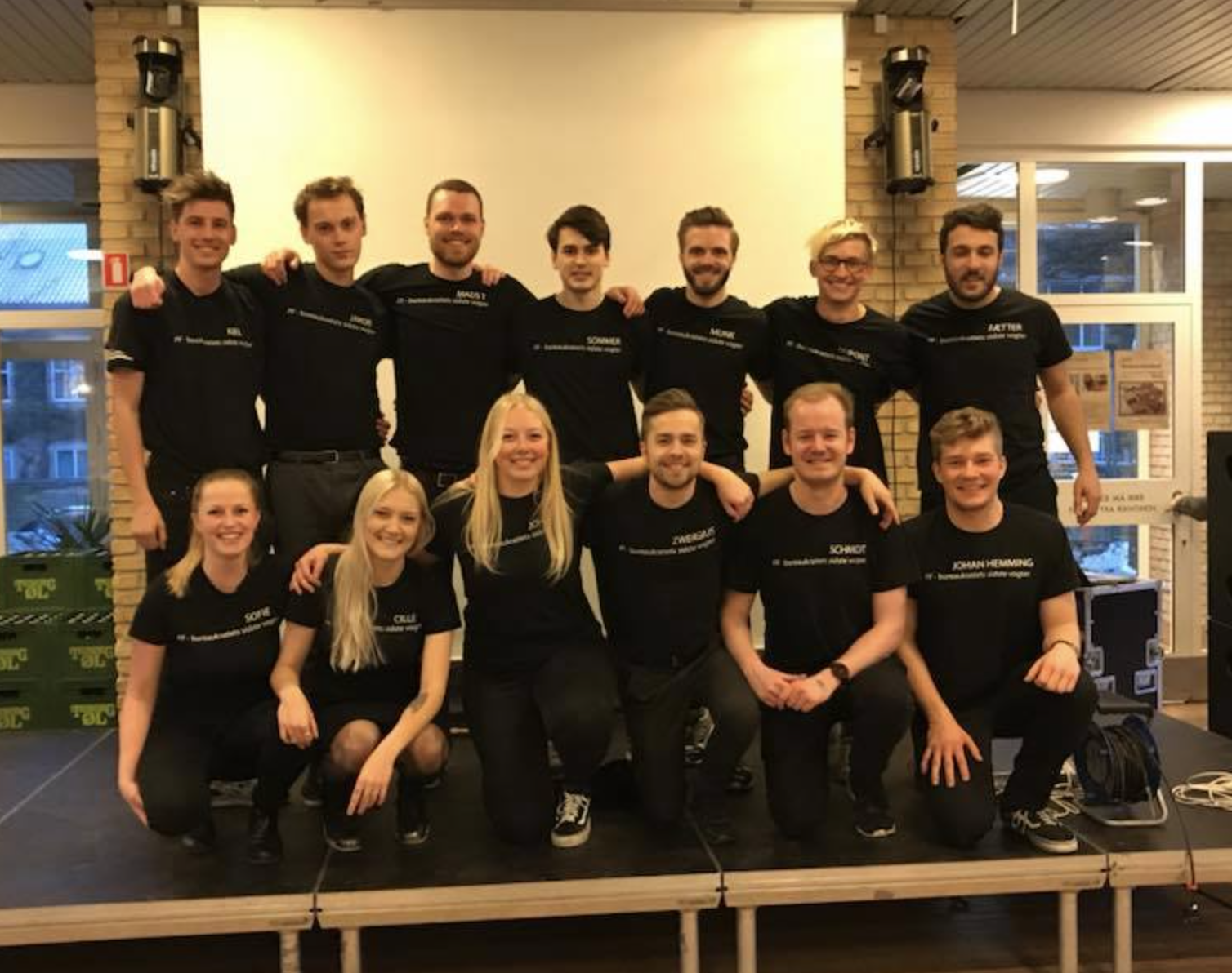 slogan for board